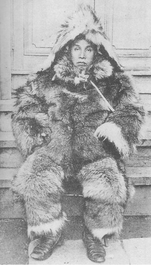 A explorer from Japan,白瀬矗（Nobu Shirase）